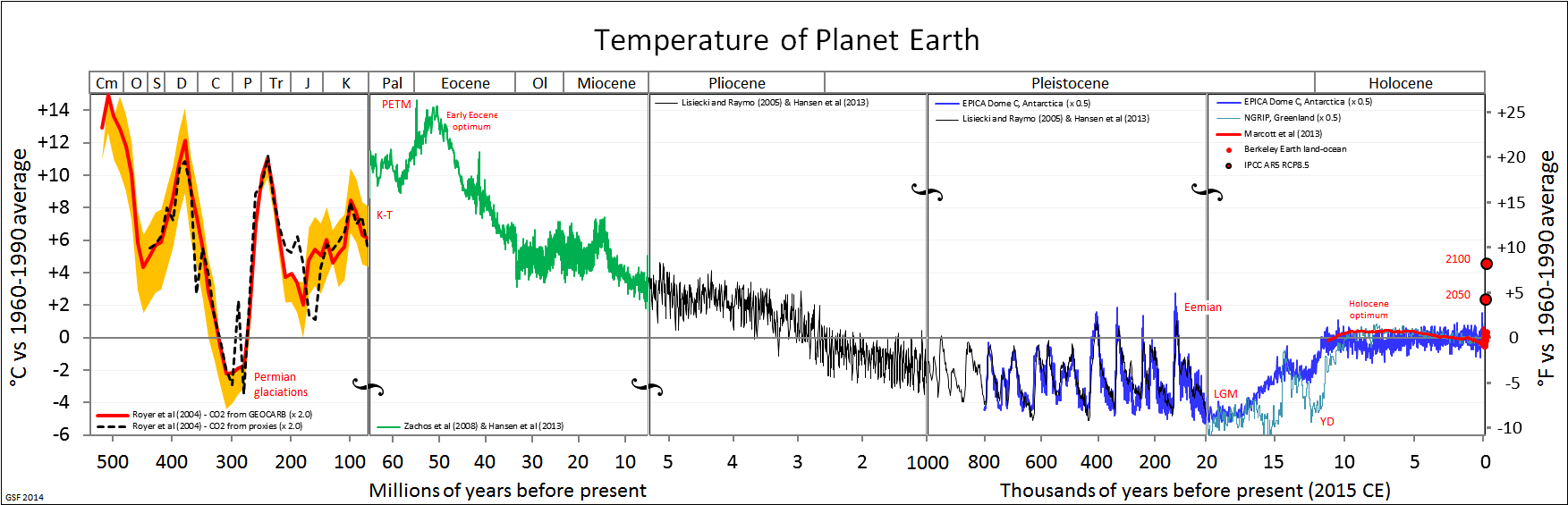 Global average temperature estimates for the last 540 My